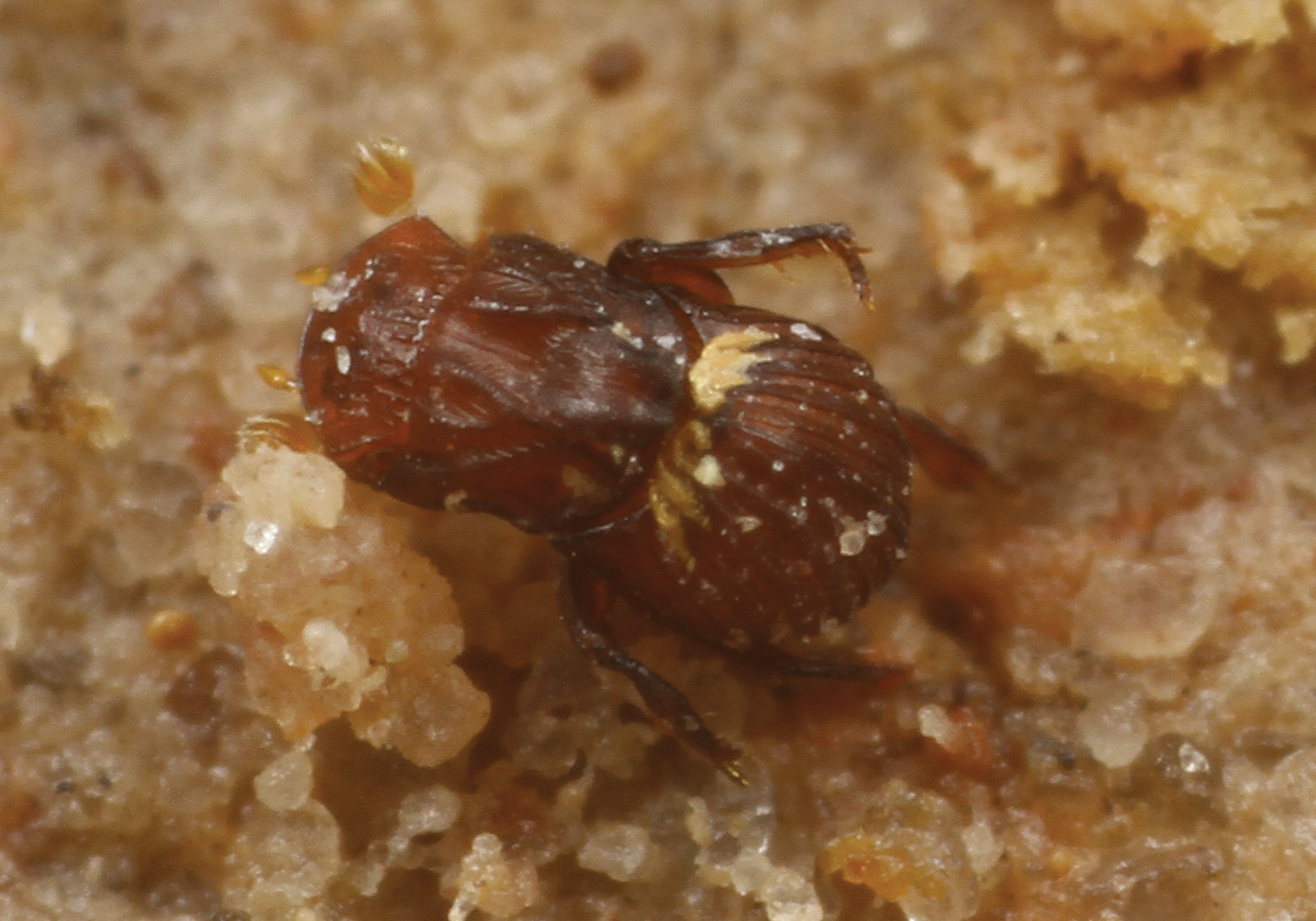 Termitotrox cupido walking on a fungus garden cell.